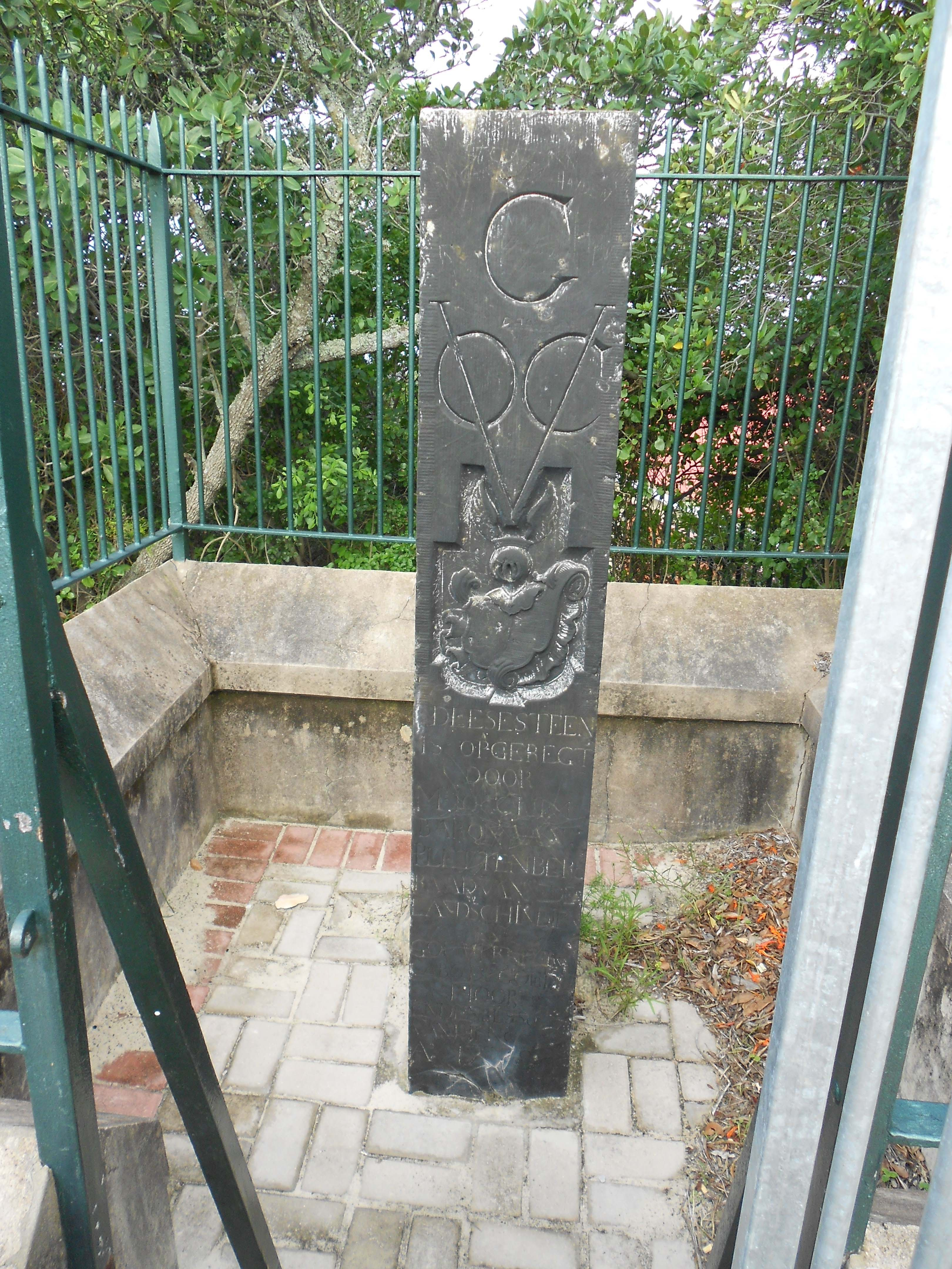 During 1778 Baron Joachim van Plettenberg, who was the Governor of the Cape of Good Hope, arrived in the area. He decided to give the town his name and since then it was known as Plettenberg Bay. He erected a slate possessional stone to indicate that the bay belonged to the Dutch East India Company. This media shows a South African Protected Site with SAHRA file reference 9/2/052/0003-001.